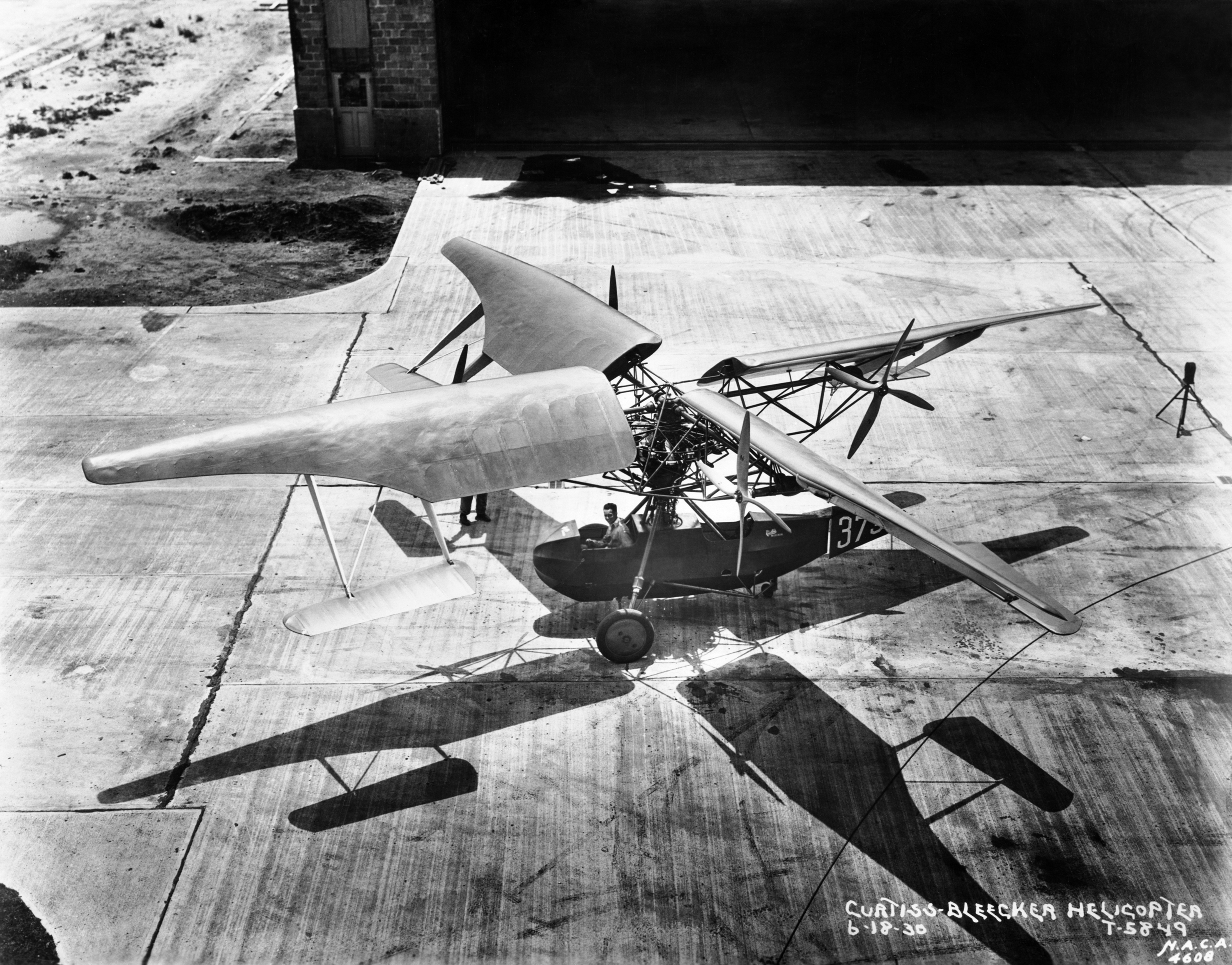 In June of 1930 this Curtiss Bleeker Helicopter was photographed on the tarmac in front of the Langley hangar. The first successful helicopters, however, appeared in Europe later in the decade.